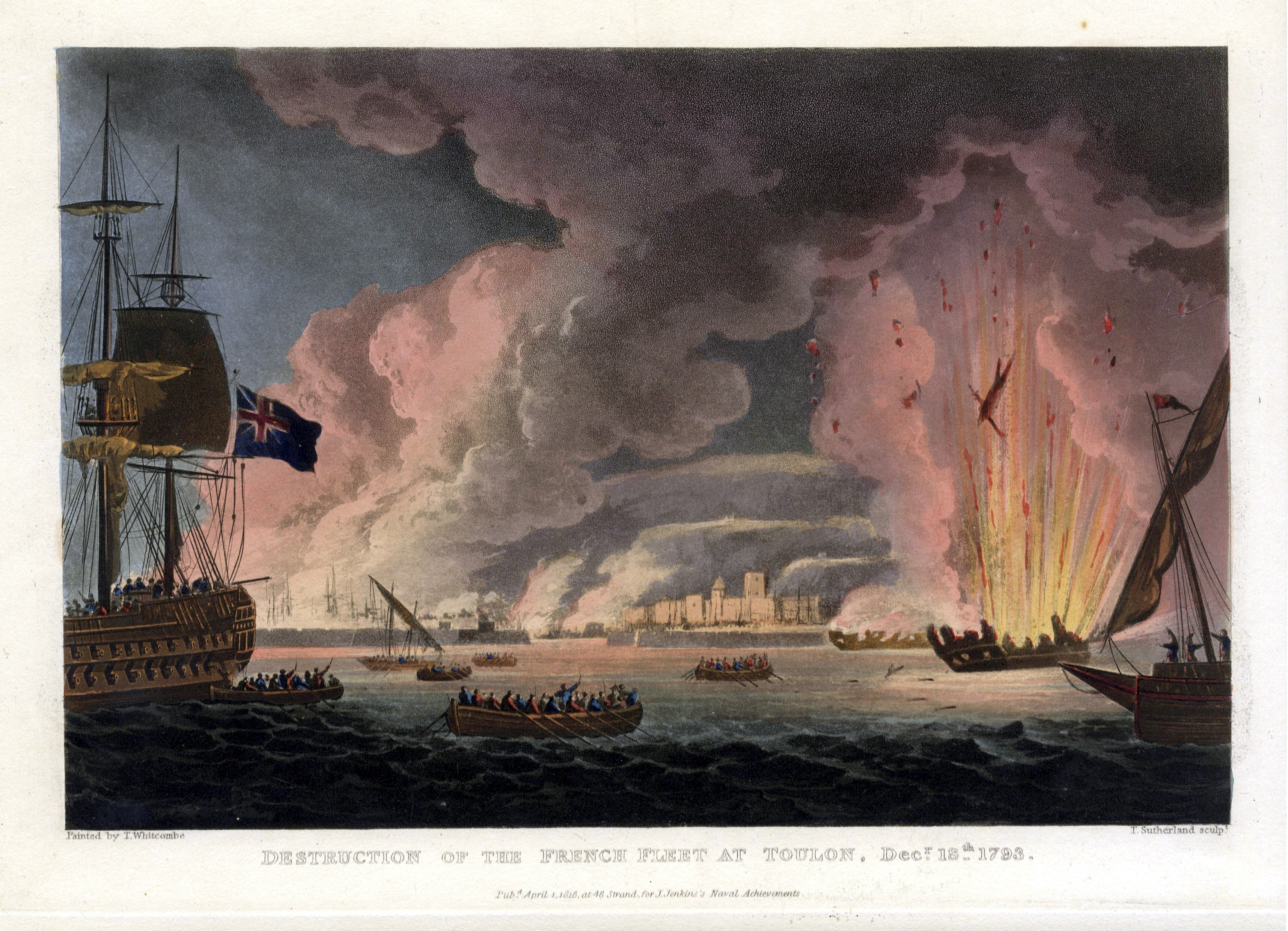 Destruction of the French Fleet at Toulon 18th December 1793